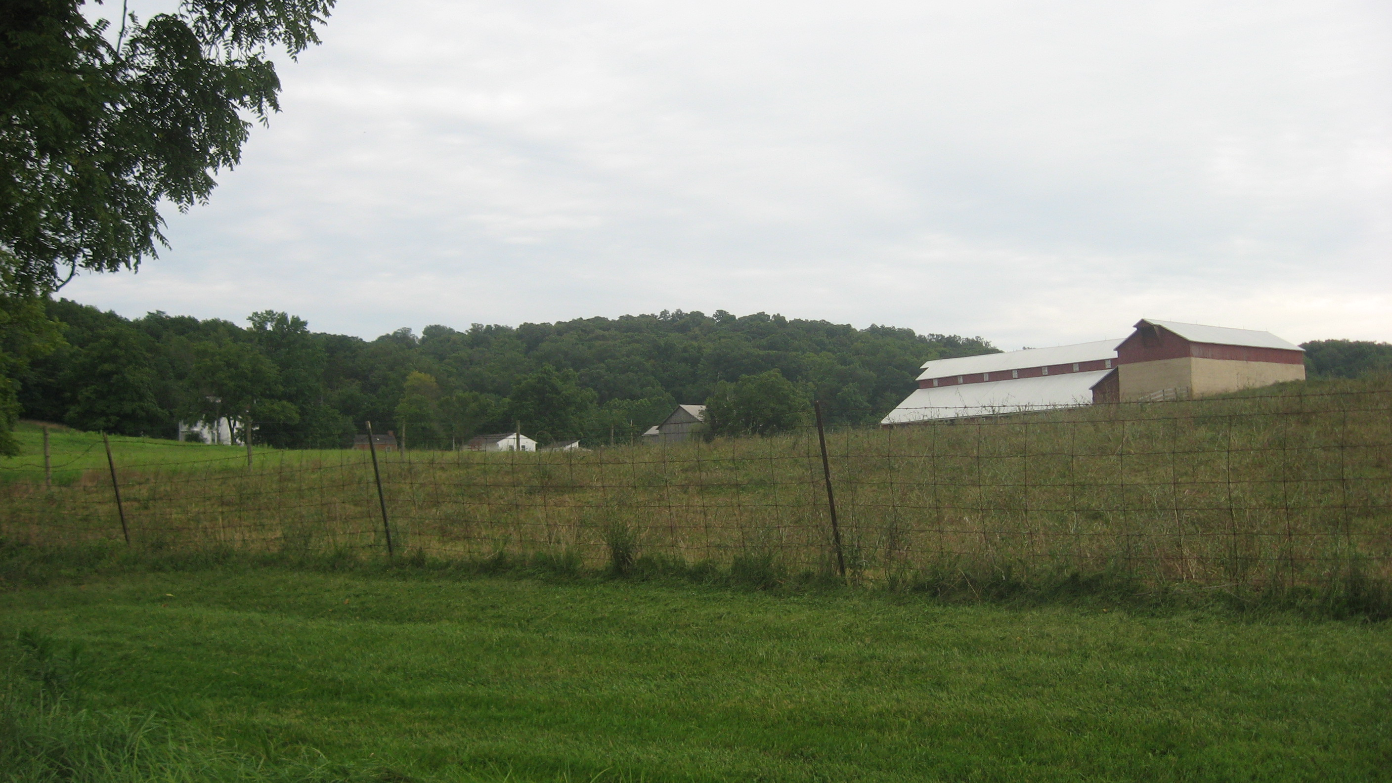 Overview of the John Scott Farm, located at 3681 Hamilton-New London Road east of Shandon in Ross Township, Butler County, Ohio, United States. Built in 1875, the complex is listed on the National Register of Historic Places.